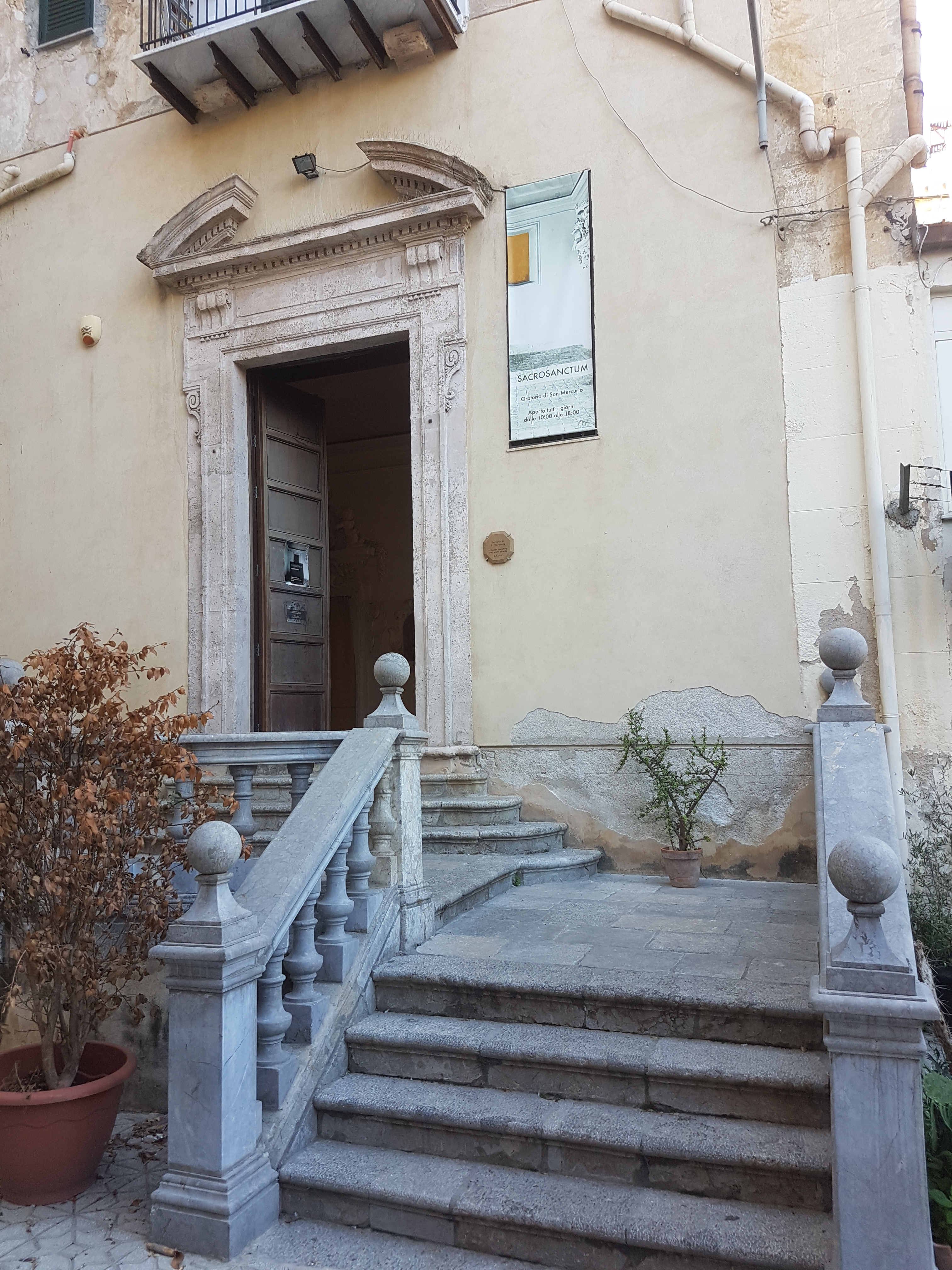 Oratorio di San Mercurio in Palermo - Sicily